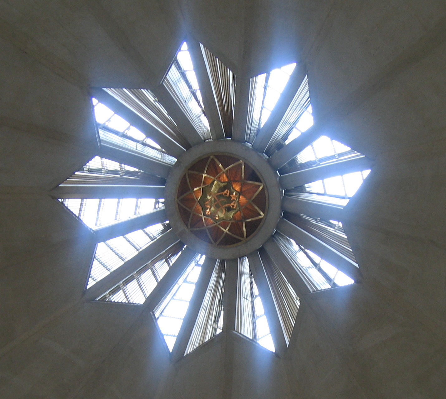 Lotus Temple - Delhi, various views